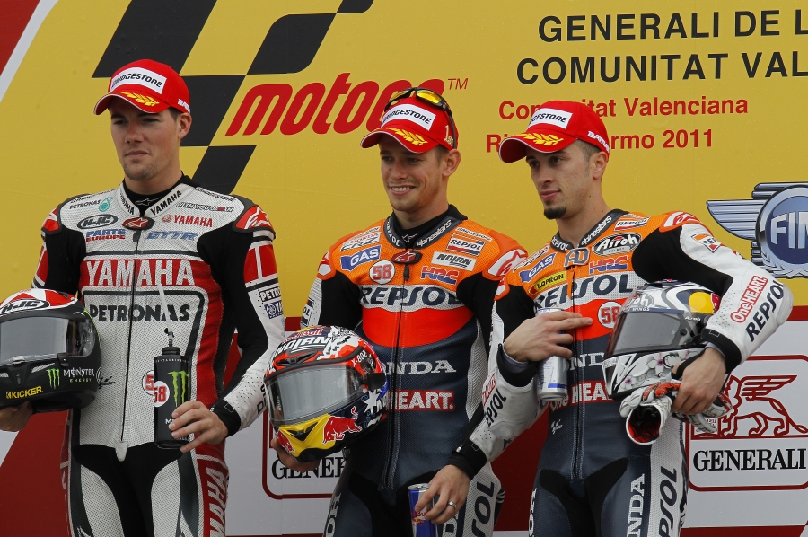 Ben Spies, Casey Stoner and Andrea Dovizioso stand on the podium after finishing in second, first and third place at the 2011 Valencian Community Grand Prix. The number 58 on his suit was made to remember Marco Simoncelli, who got killed in an incident at the Malaysian round.